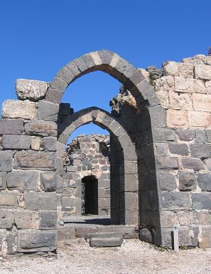 The main entrance to the donjon of Belvoir fortress, Israel.